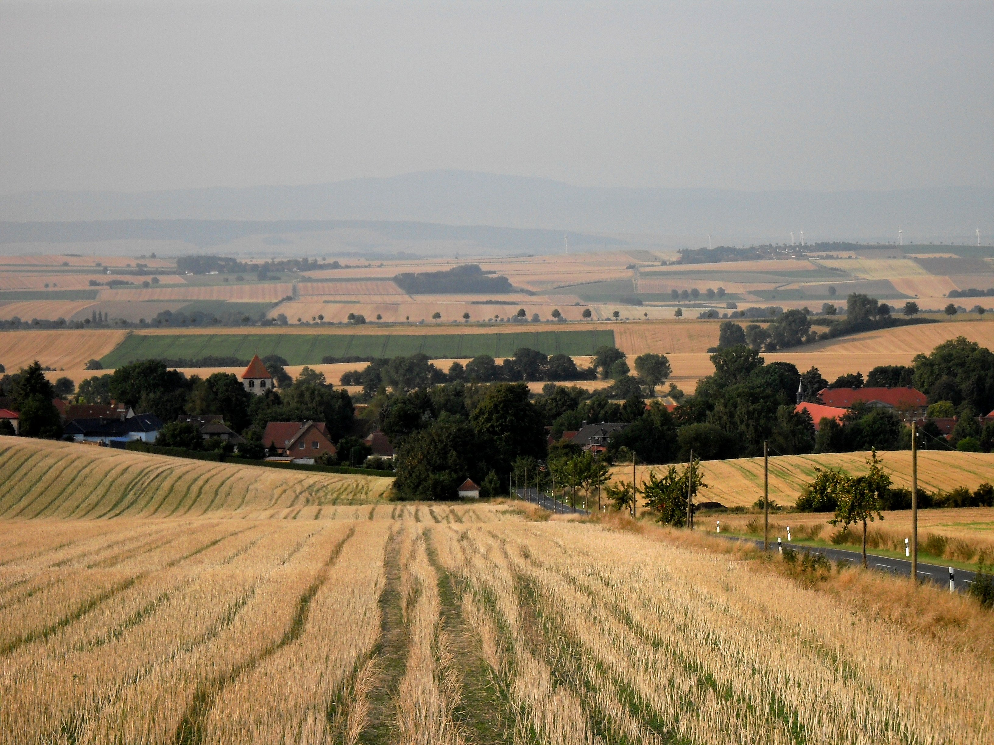 View of Ampleben from the edge of the Elm range